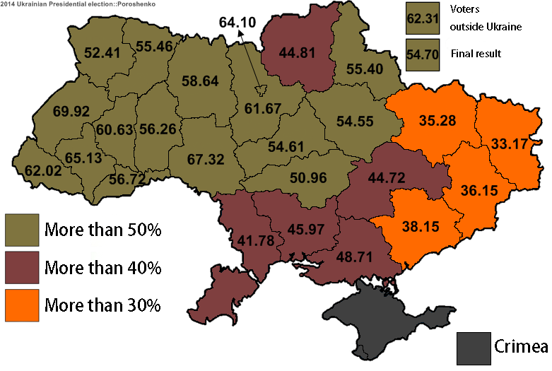 Election results of Ptero Posroshenko at the Ukrainian elections (2014)